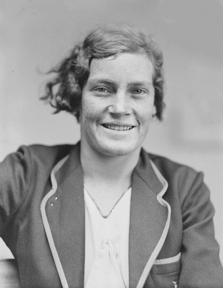 Australian freestyle swimmer Evelyn de Lacy, New South Wales, 3 February 1934